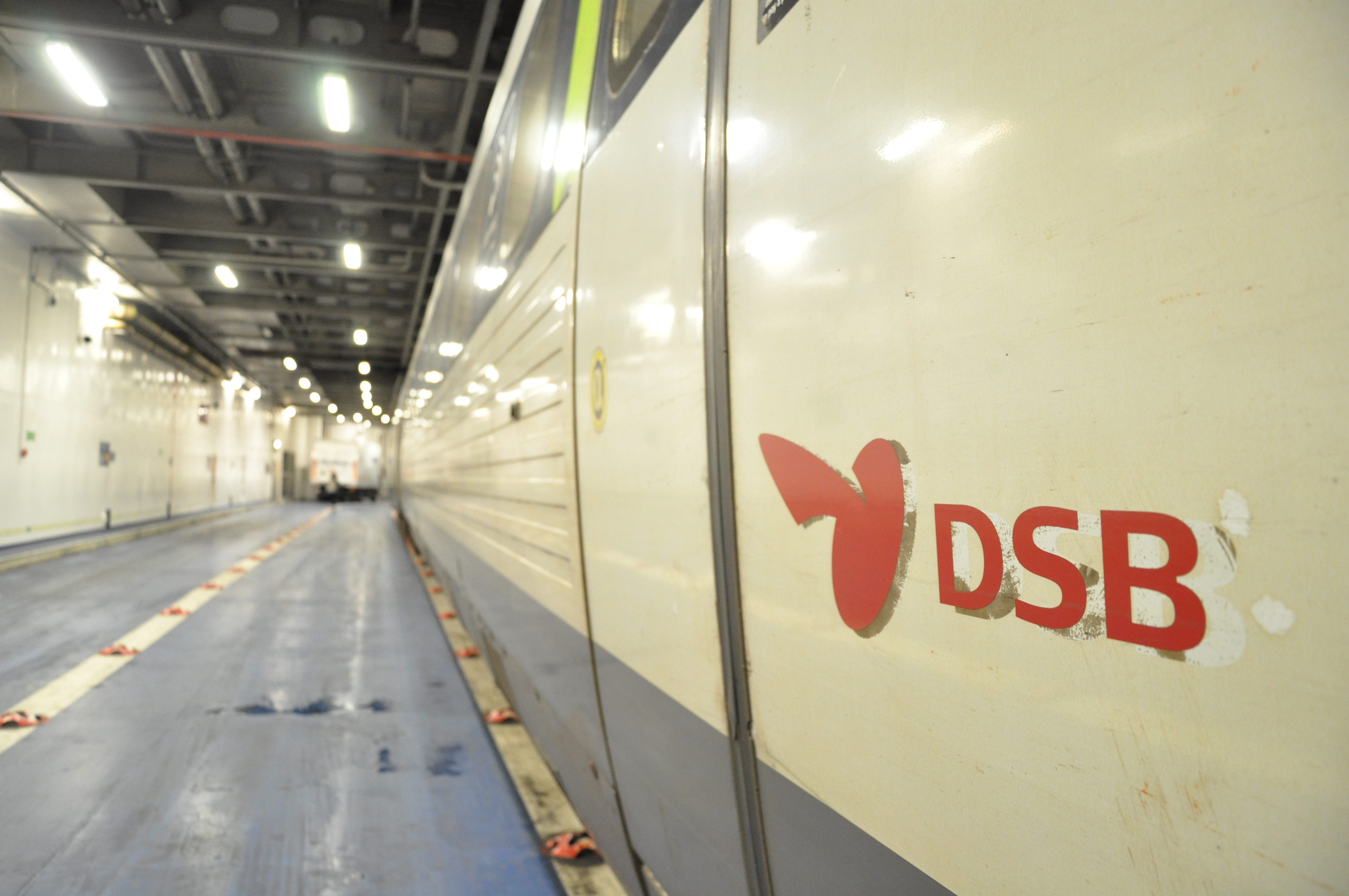 DSB MF in the Railway Ferry "Schleswig-Holstein"